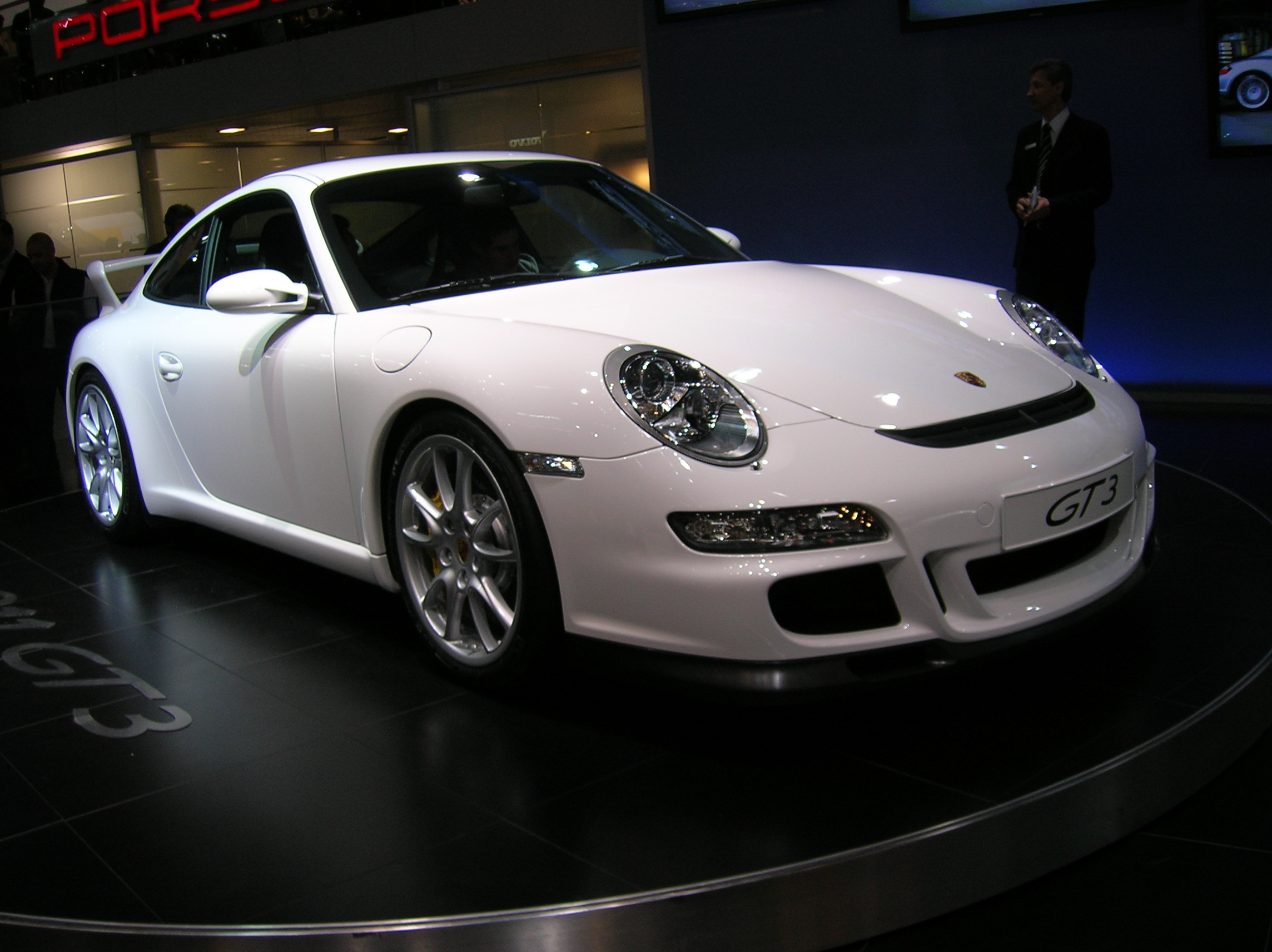 76th international Motorshow Geneva 2006 - Porsche 911 GT3 (997)